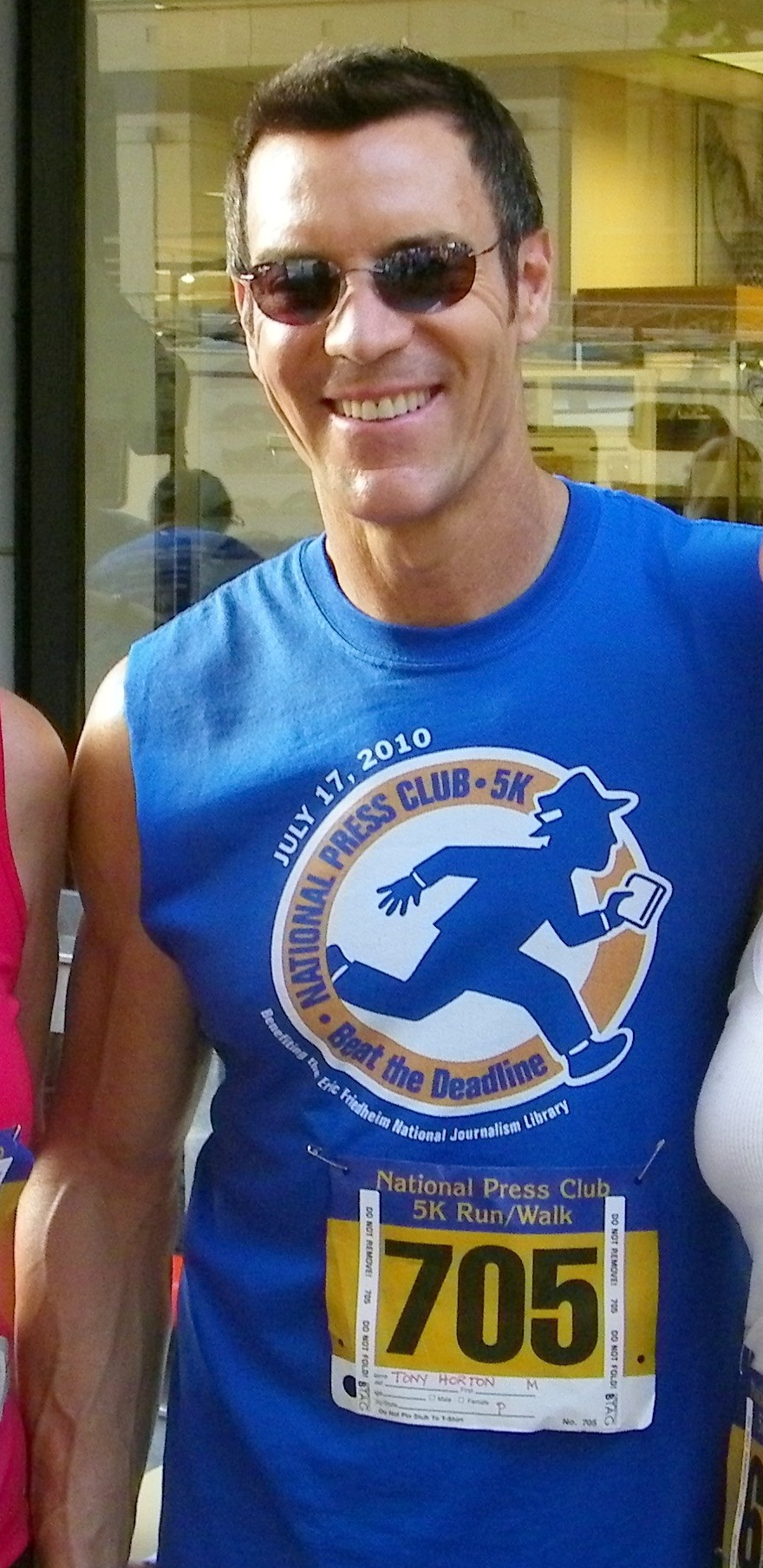 National Press Club 5K race, 17 July 2010